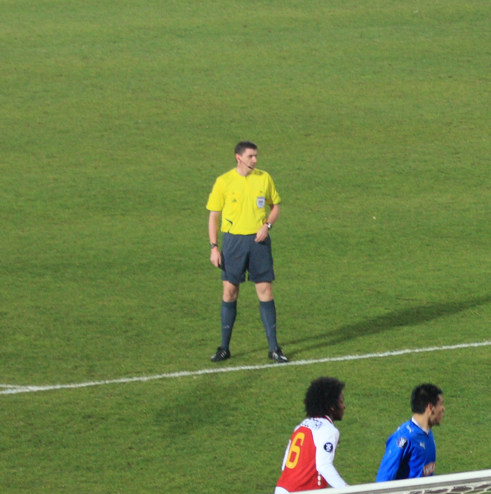 UEFA Cup game: Lech Poznań - Deportivo La Coruña. From left: Sergio González, referee Craig Thomson, Julian de Guzman, Hernan Rengifo, Mista, Daniel Aranzubia, Adrián López, Grzegorz Wojtkowiak, Andres Guardado, Filipe, Juan Carlos Valerón, Jakub Wilk.